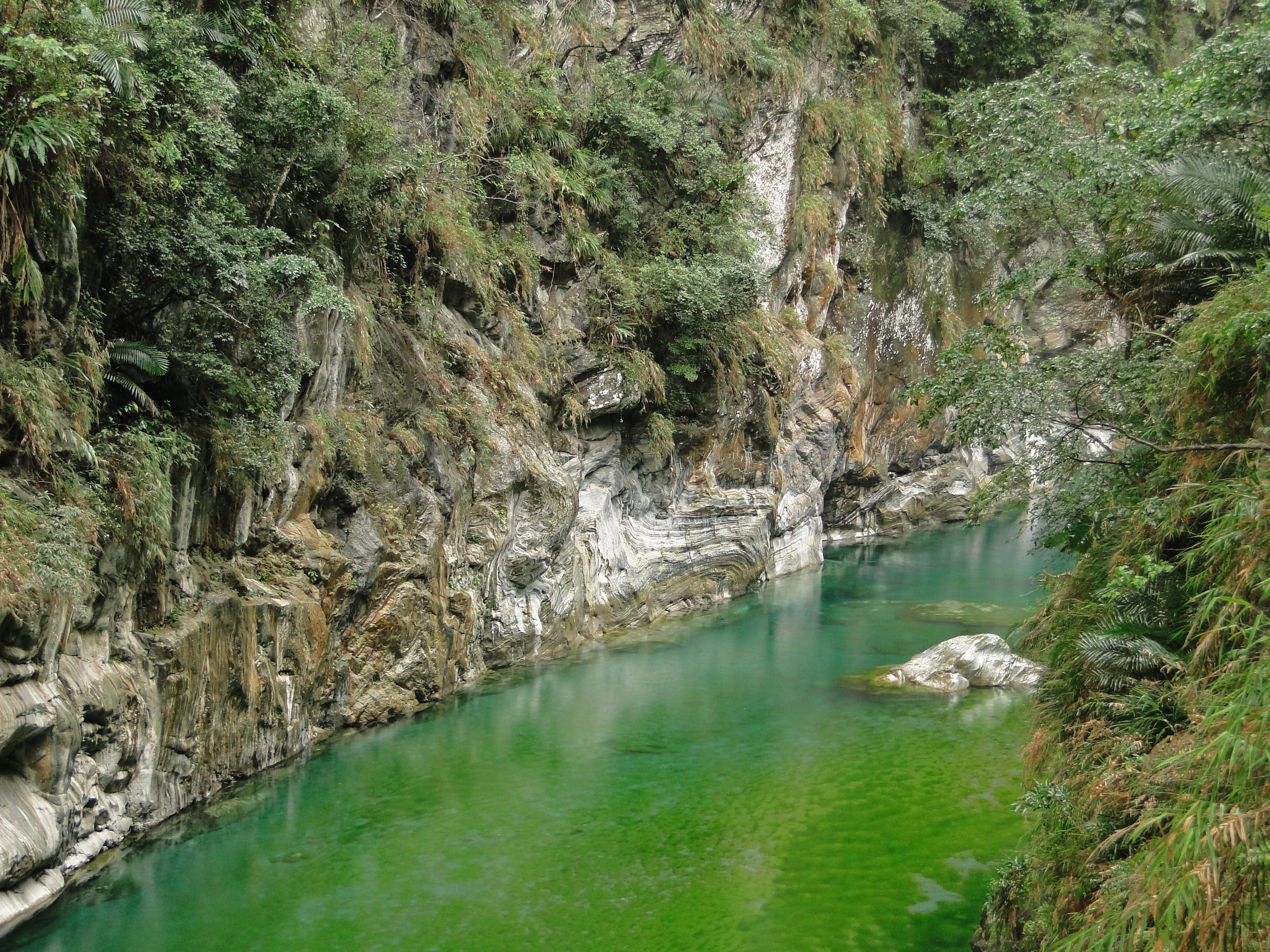 Shakadang River in Taroko National Park, Taiwan